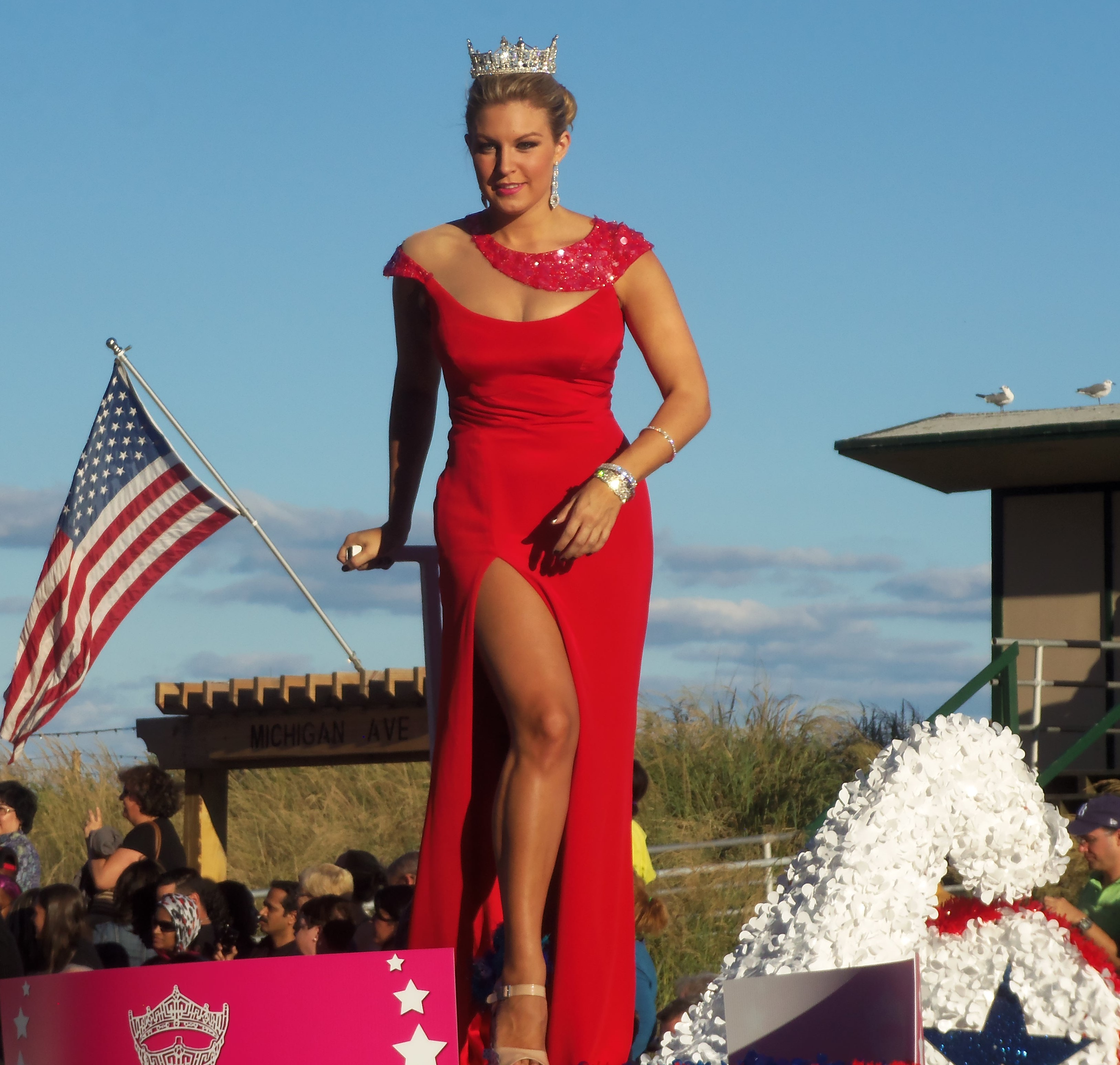 Miss America 2013 Mallory Hagan in the Show Us Your Shoes Parade on the Boardwalk in Atlantic City, New Jersey, 14 September 2013.